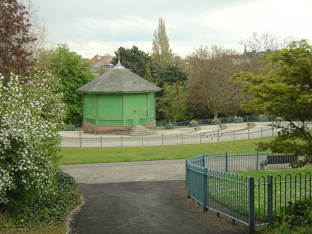 Nottingham Arboretum, the bandstand This is a grade II listed building and is still used.